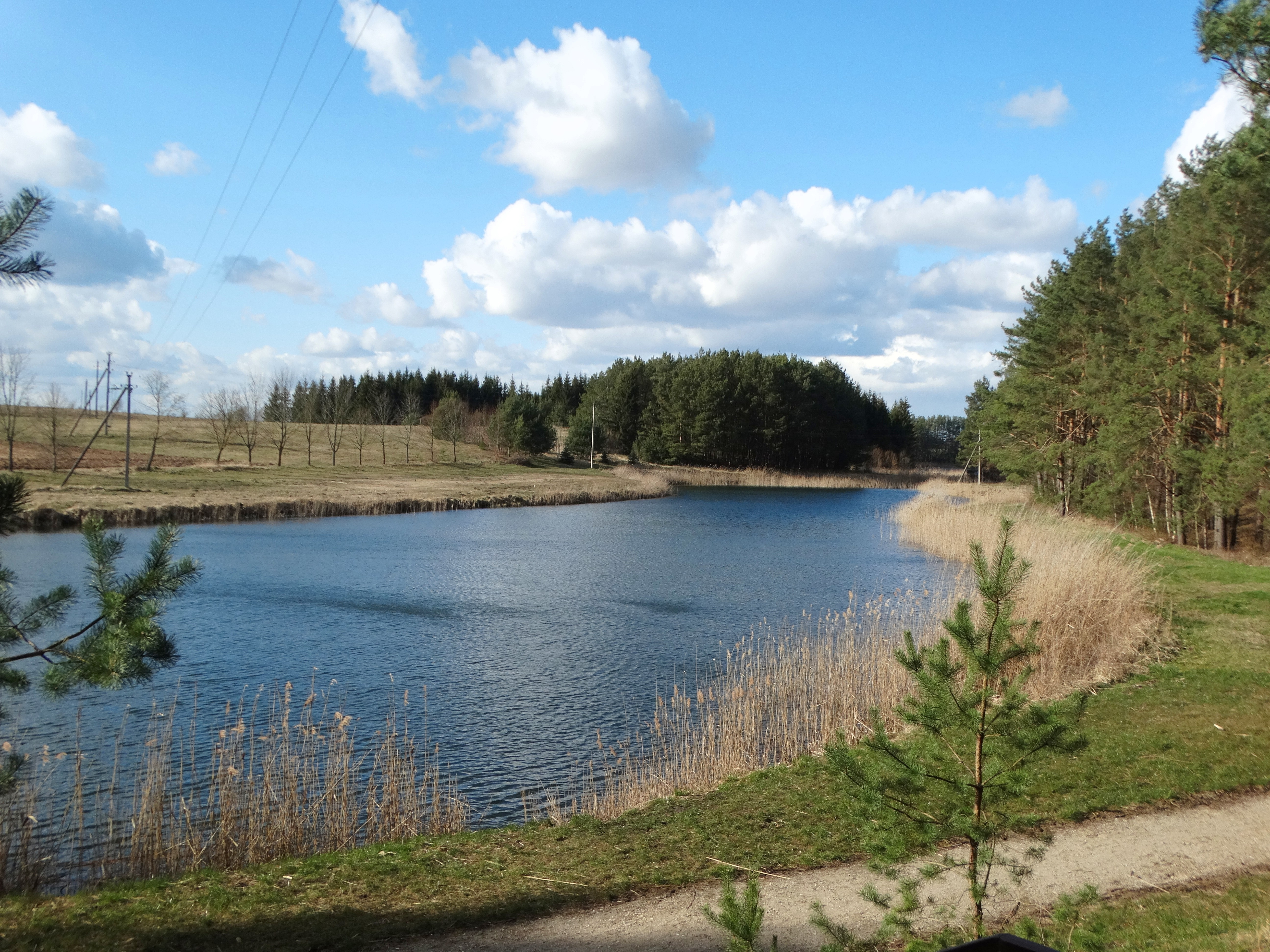 Kadrėnai Pond, Ukmergė district, Lithuania